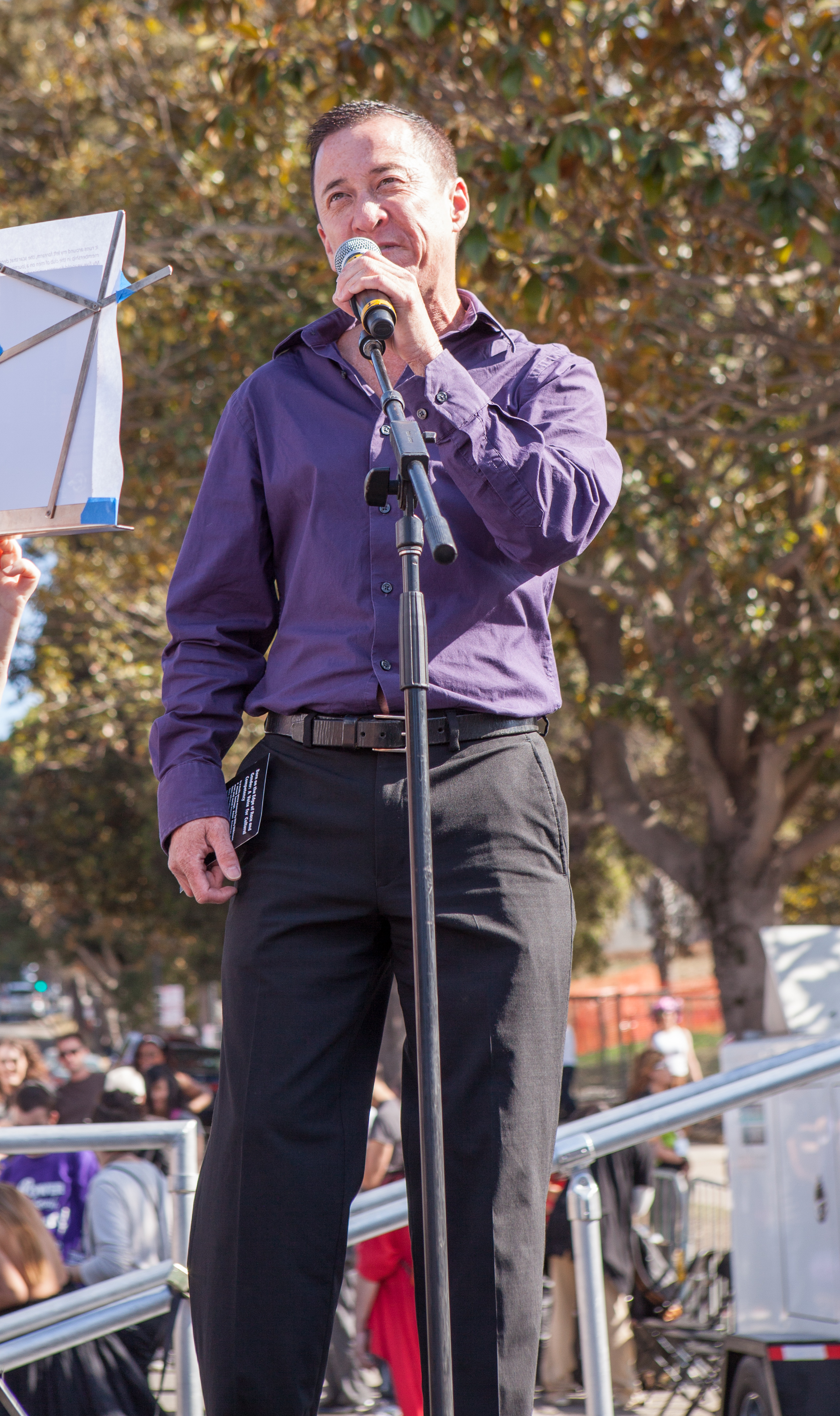 Willy Wilkinson, trans male author and activist, speaks at the Trans March in San Francisco, June 26, 2015.